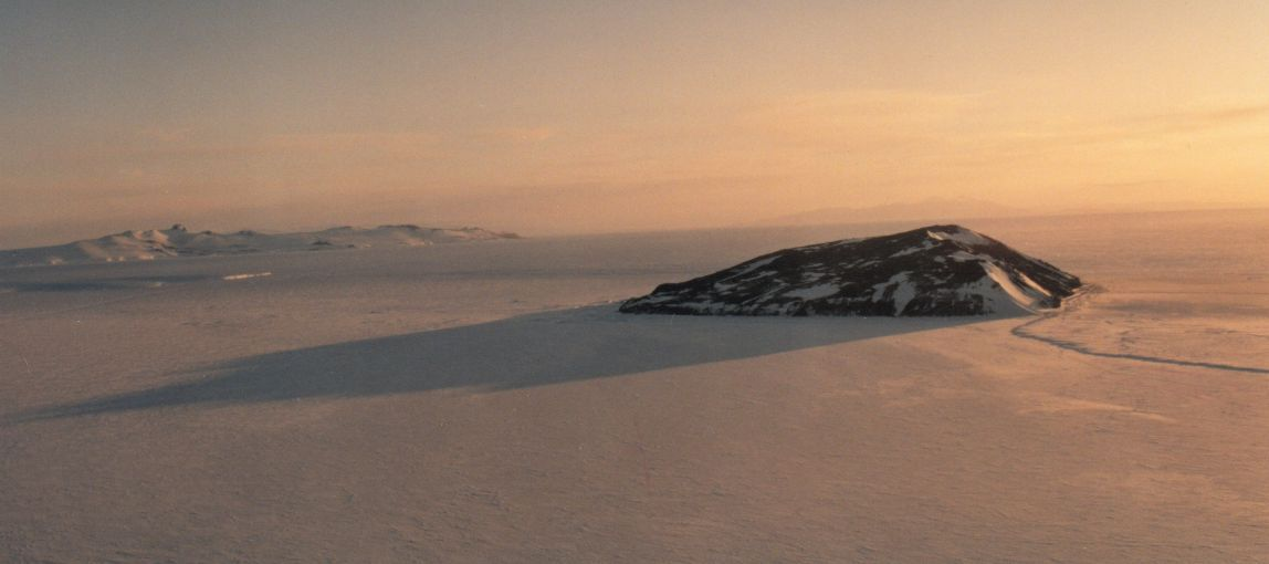 Tent Island, Erebus Bay, Ross Archipelago, Antarctica.